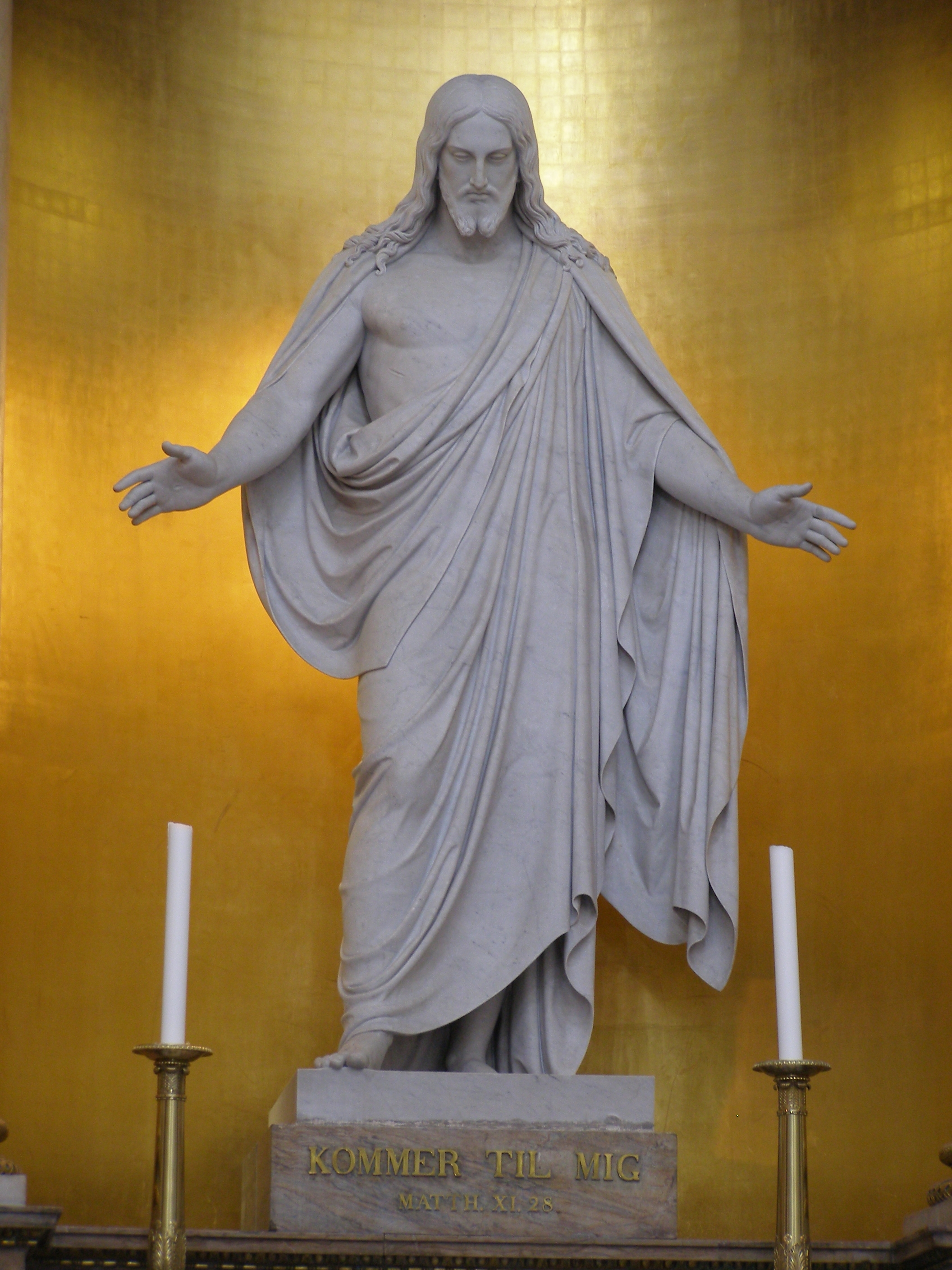 Copenhagen - cathedral of Our Lady